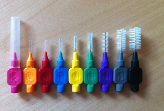 All nine sizes of TePe Interdental Brushes original